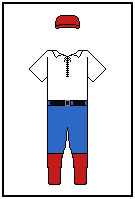 The uniform of the Nashville Centennials minor league baseball team of the Central League in 1897 shown with red stockings.